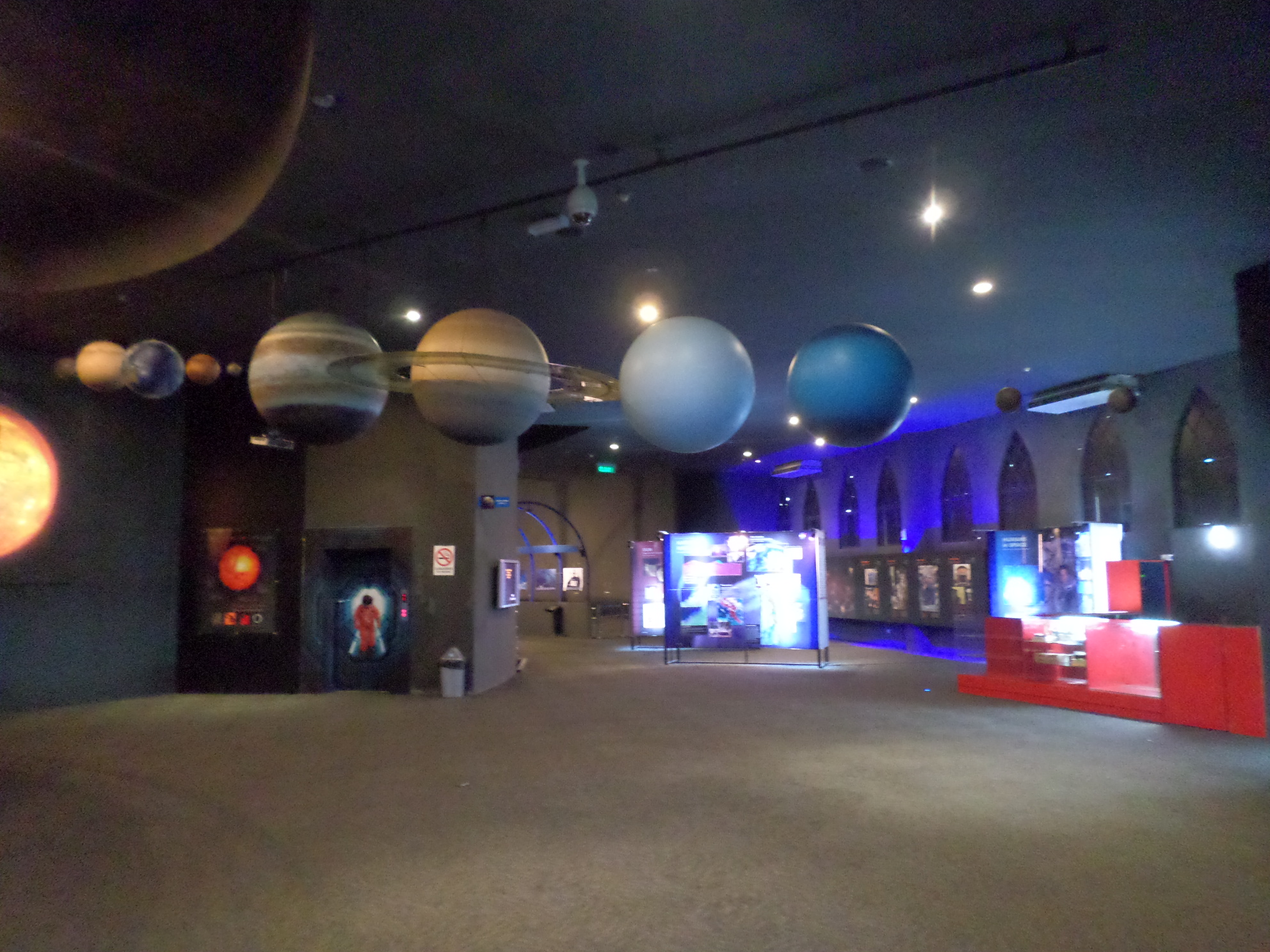 Melaka Planetarium, Ayer Keroh, Malacca, MalaysiaBahasa Melayu: Planetarium Melaka, Ayer Keroh, Melaka, Malaysia